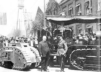 On April 22, 1918, British Colonel Ernest Dunlop Swinton (right) traveled to Stockton, California, to publicly honor Benjamin Holt (left) and the workforce for their contribution to the war effort. Benjamin Holt was recognized by the Colonel at a public meeting held in Stockton.